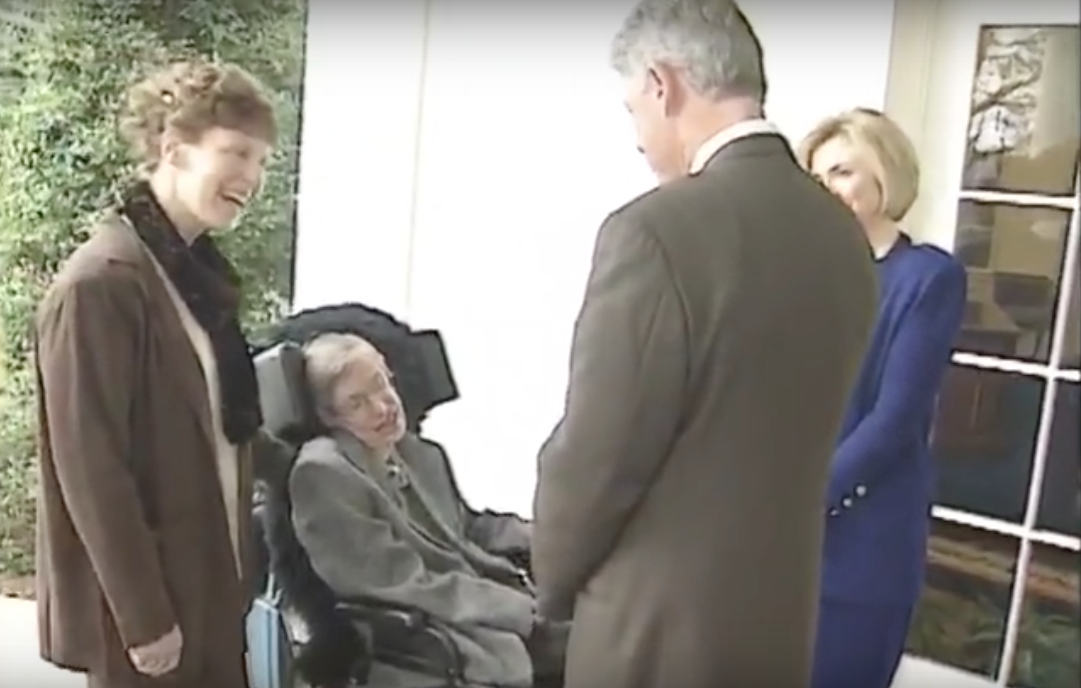 Stephen Hawking and his then-wife Elaine Mason visit the Clintons at the White House March 5, 1998. Here they are outside of the Oval Office.